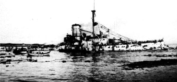 Italian battleship Benedetto Brin